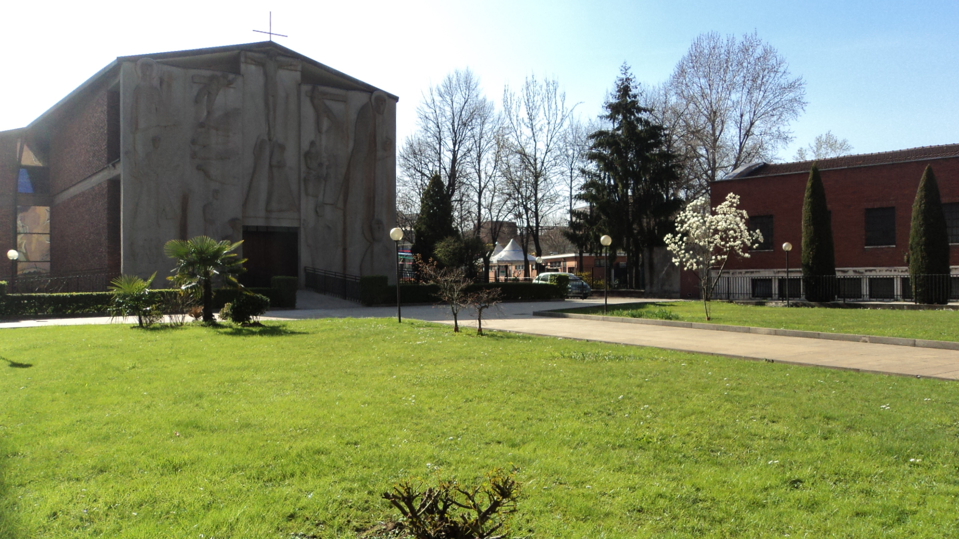 The Saint Marcellina and Saint Joseph at Chartreuse Church with the cultivated garden square